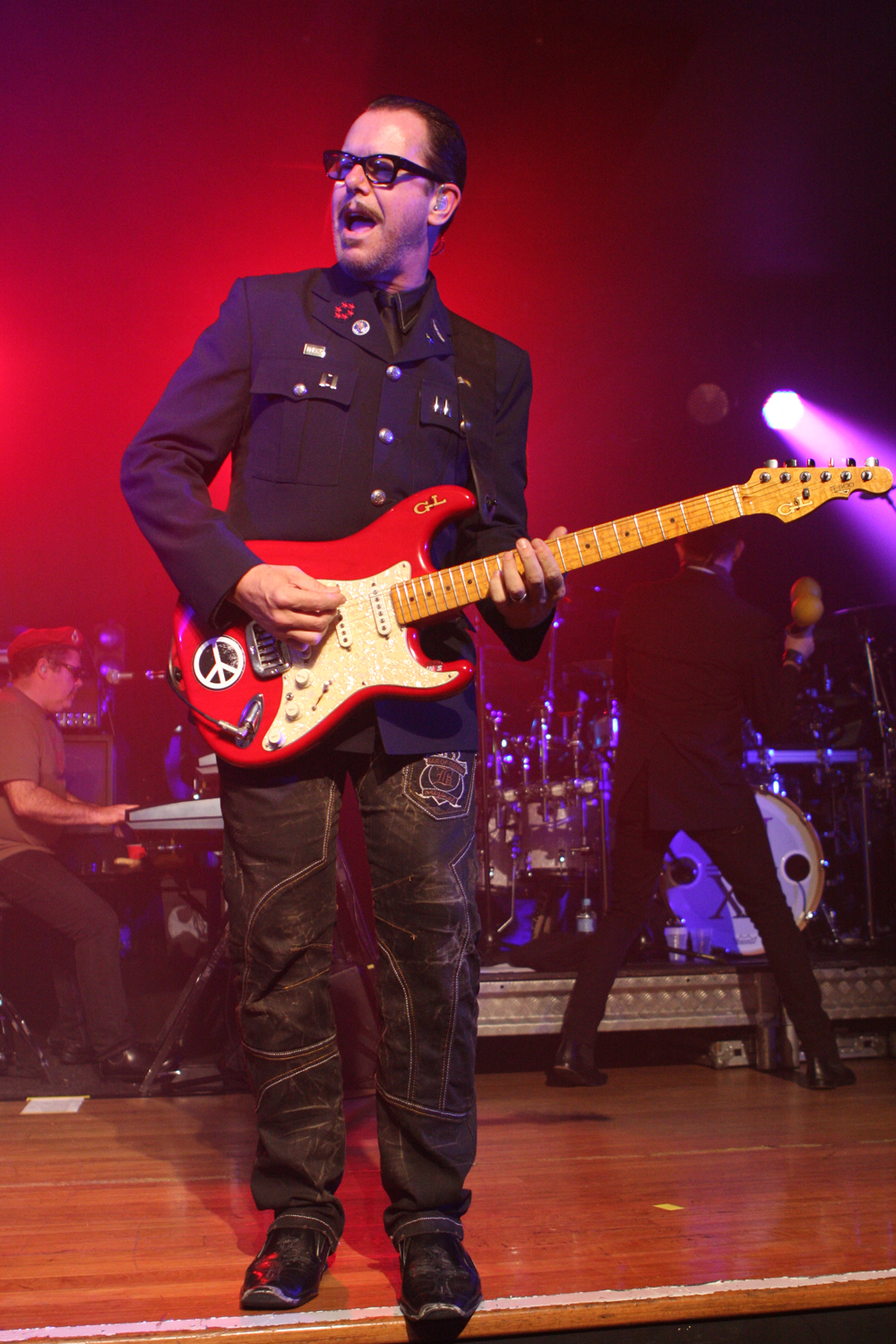 INXS performs at Campbelltown RSL Club, Sydney